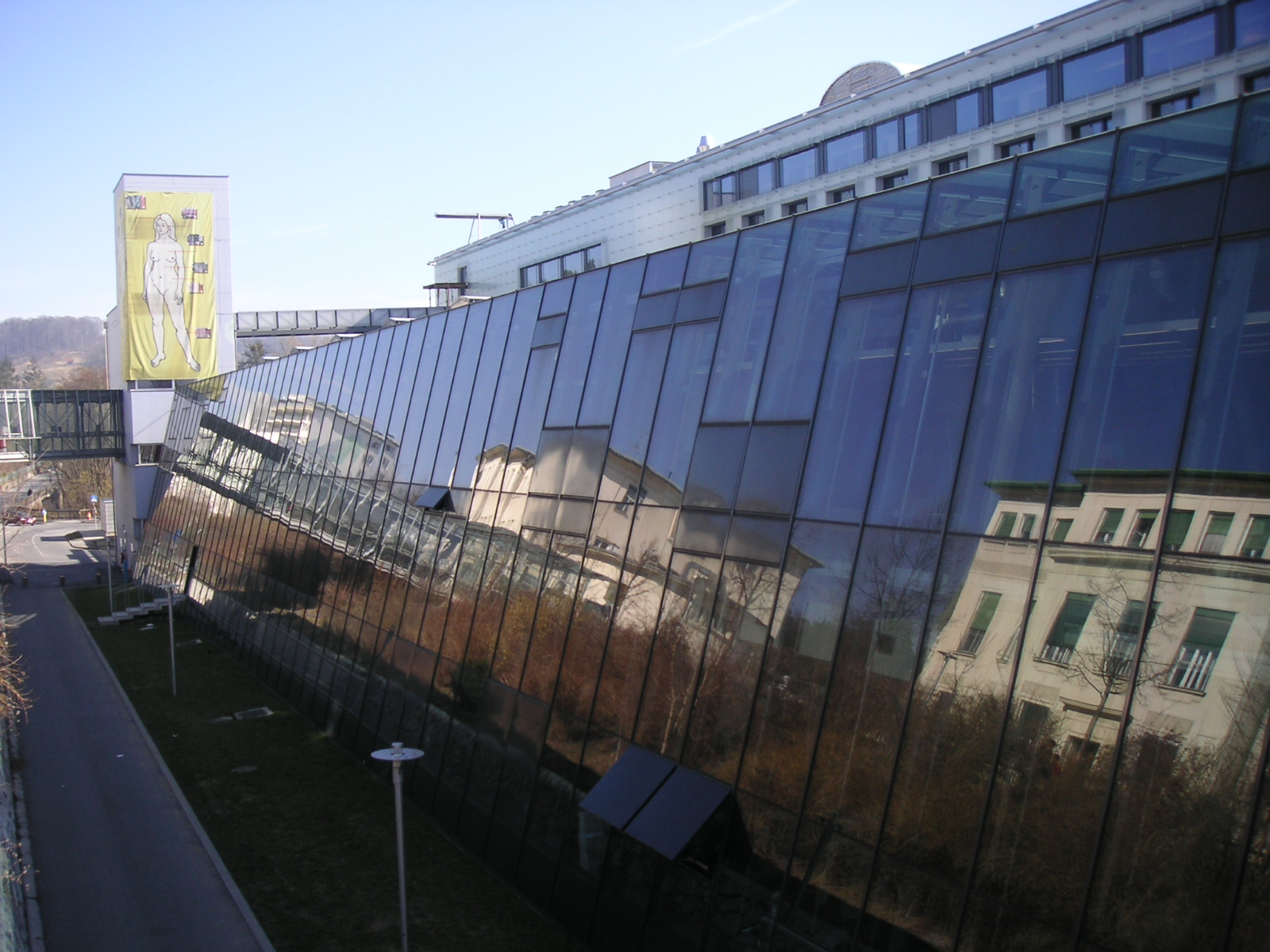 The ZMF - center for medical research - at the Medical University in Graz, Austria.